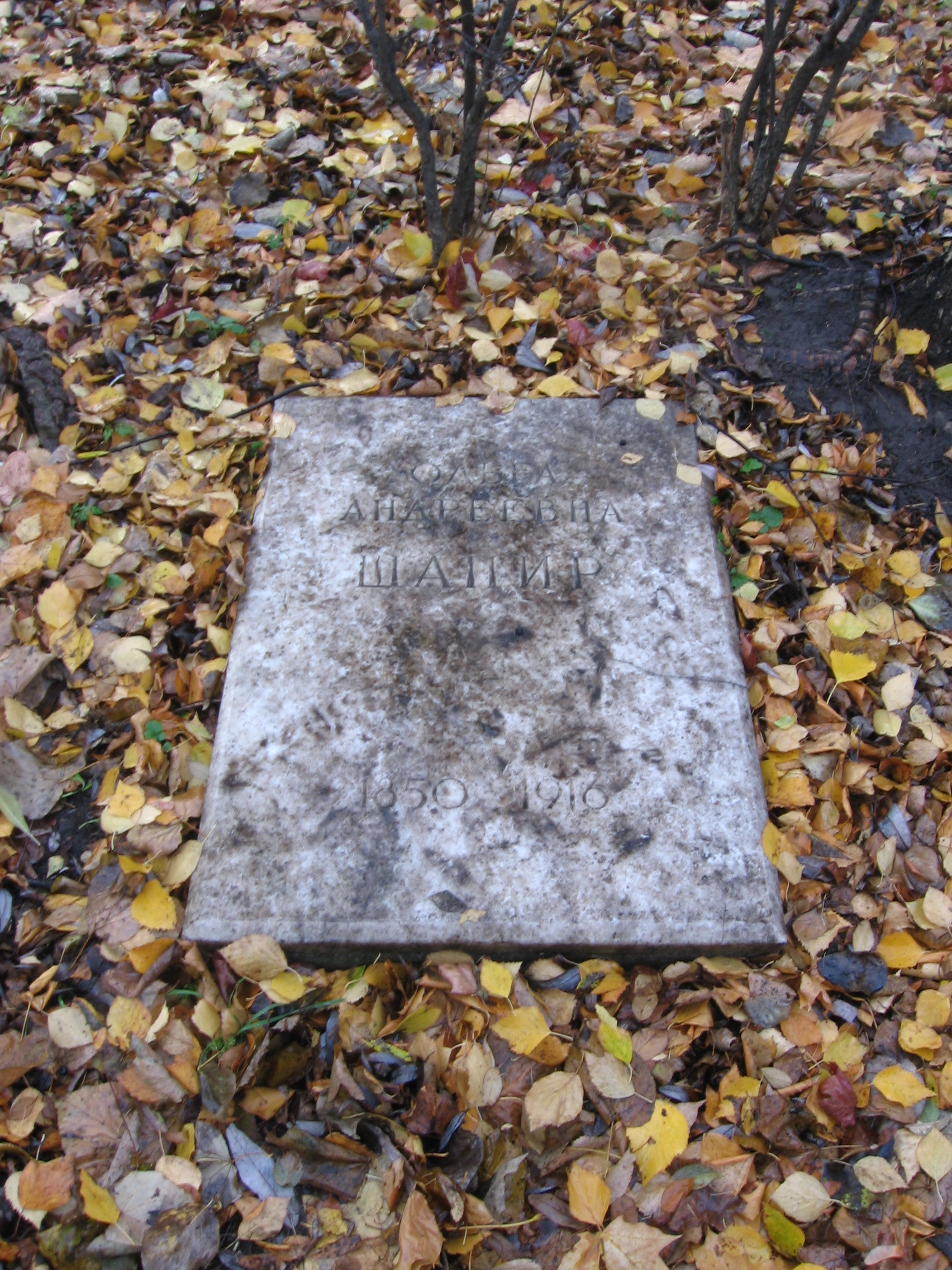 Grave of Olga Shapir (Kislyakova)